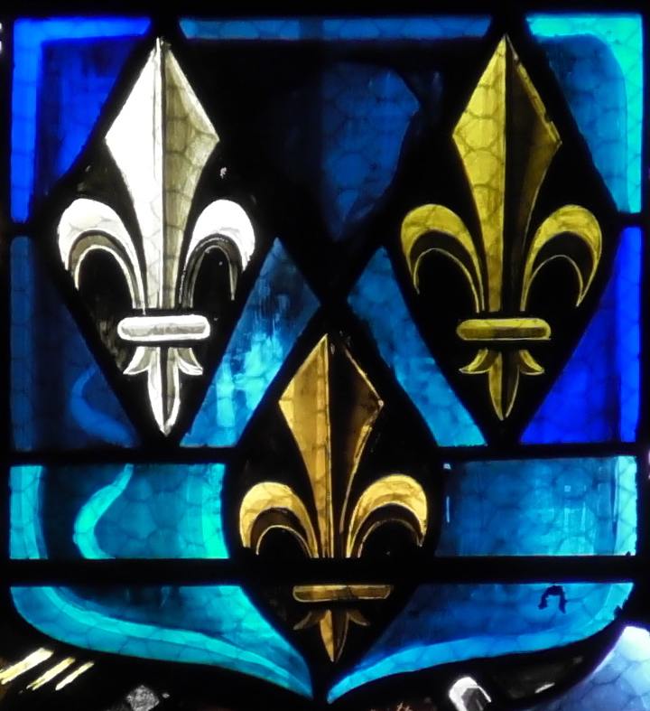 The original coat of arms of Lézignan-Corbières is at the bottom of the central stained glass window of the heart of the Saint-Félix church